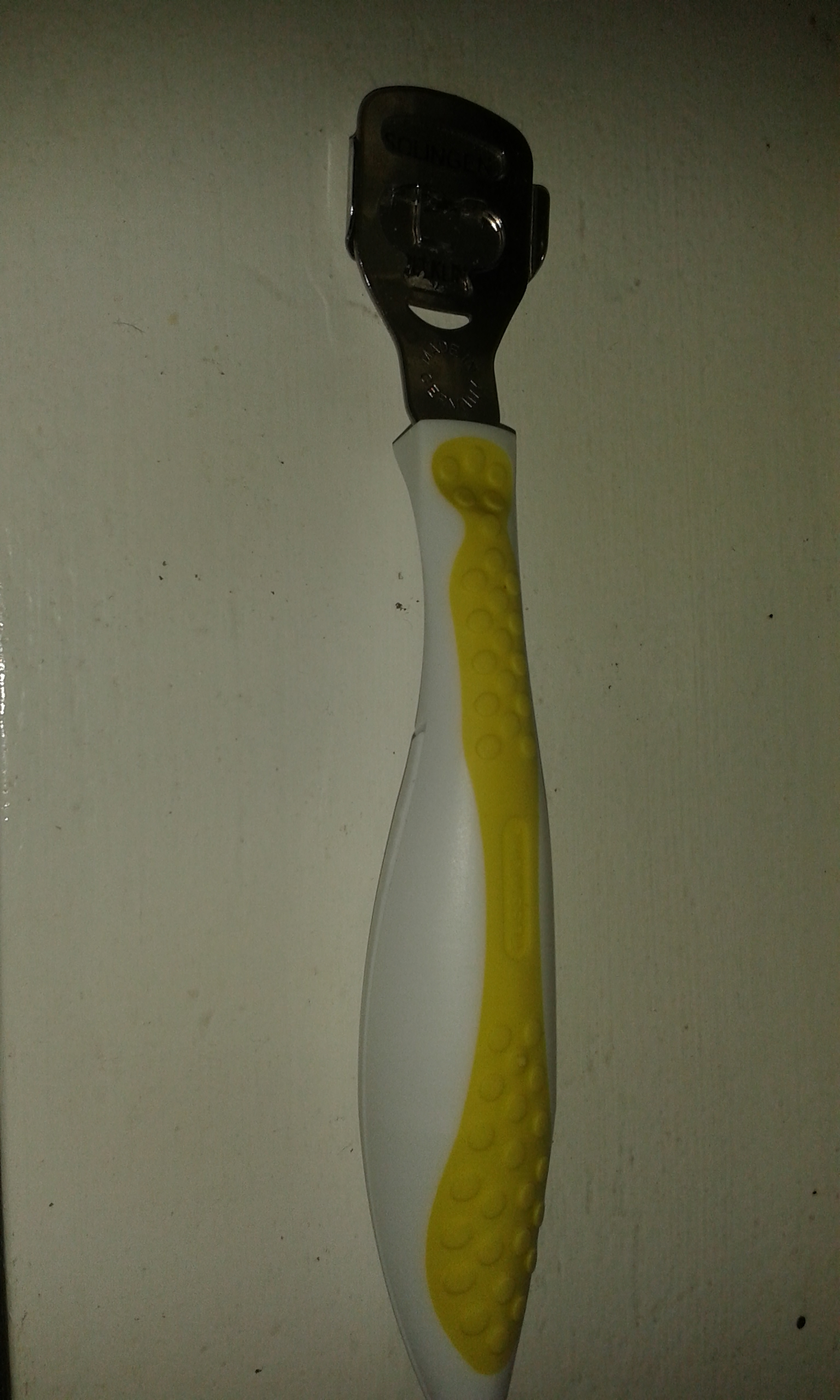 Planer for corneal